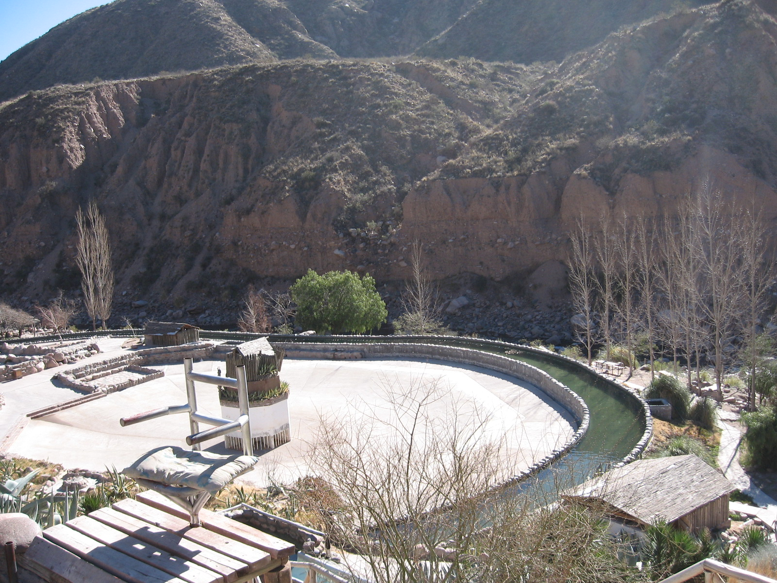 Termal waters of Cacheuta, in the middle of the Andes mountain range, in Mendoza, Argentina